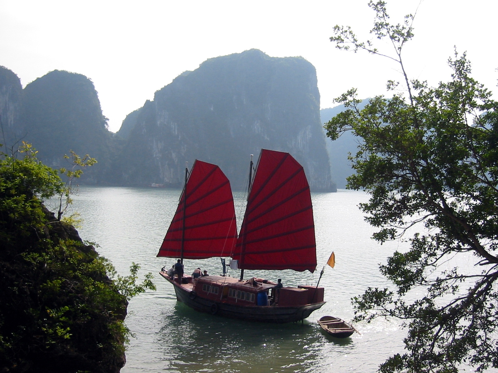 Junk in the Halong Bay, Vietnam